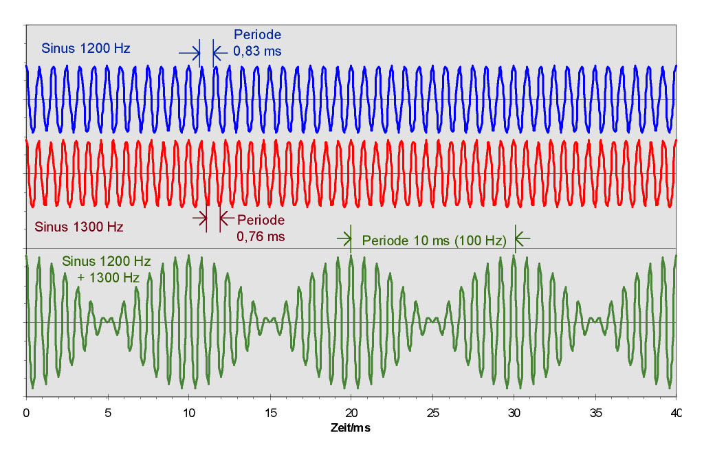 Formation of difference tones Superposition of two sine waves of 1200 Hz and 1300 Hz of equal amplitude Two tones are superimposed (summed): 1200 Hz sine wave (period 0.83 ms) 1300 Hz sine wave (period 0.76 ms) The result is a beat (envelope oscillation) with a 10 ms period, which corresponds to a difference frequency of 100 Hz. The pitch of 100 Hz oscillation in this case can be perceived by the ear (differential tone).